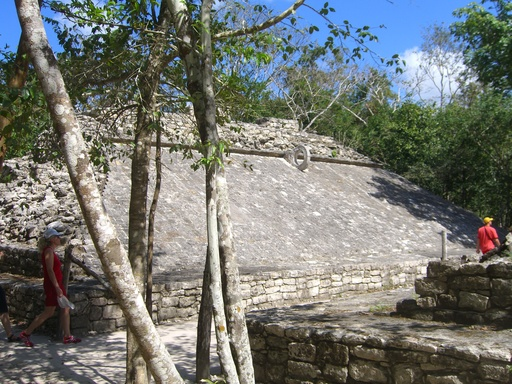 Ball Court, at Cobá, group B, Yucatán